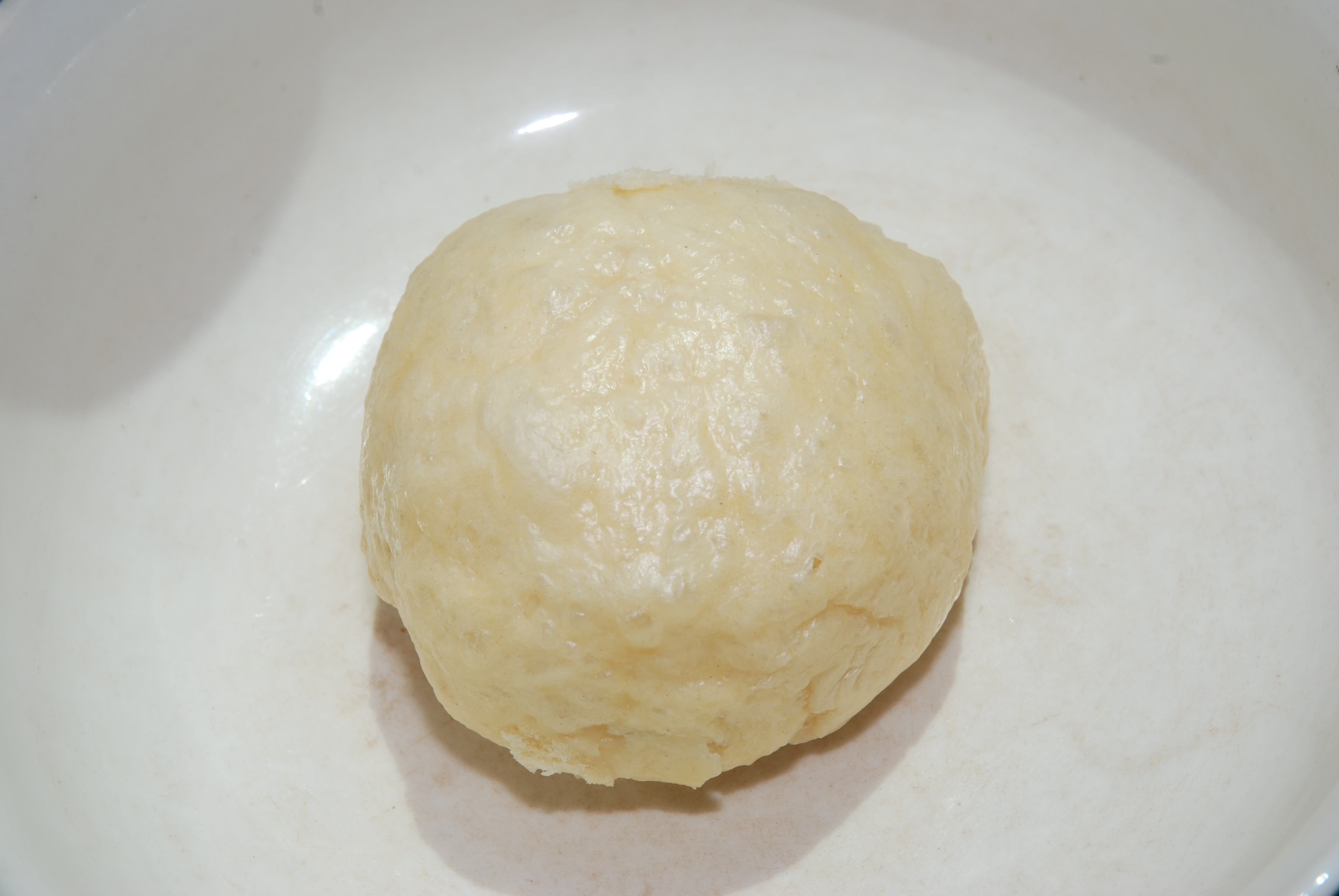 a handmade mantou